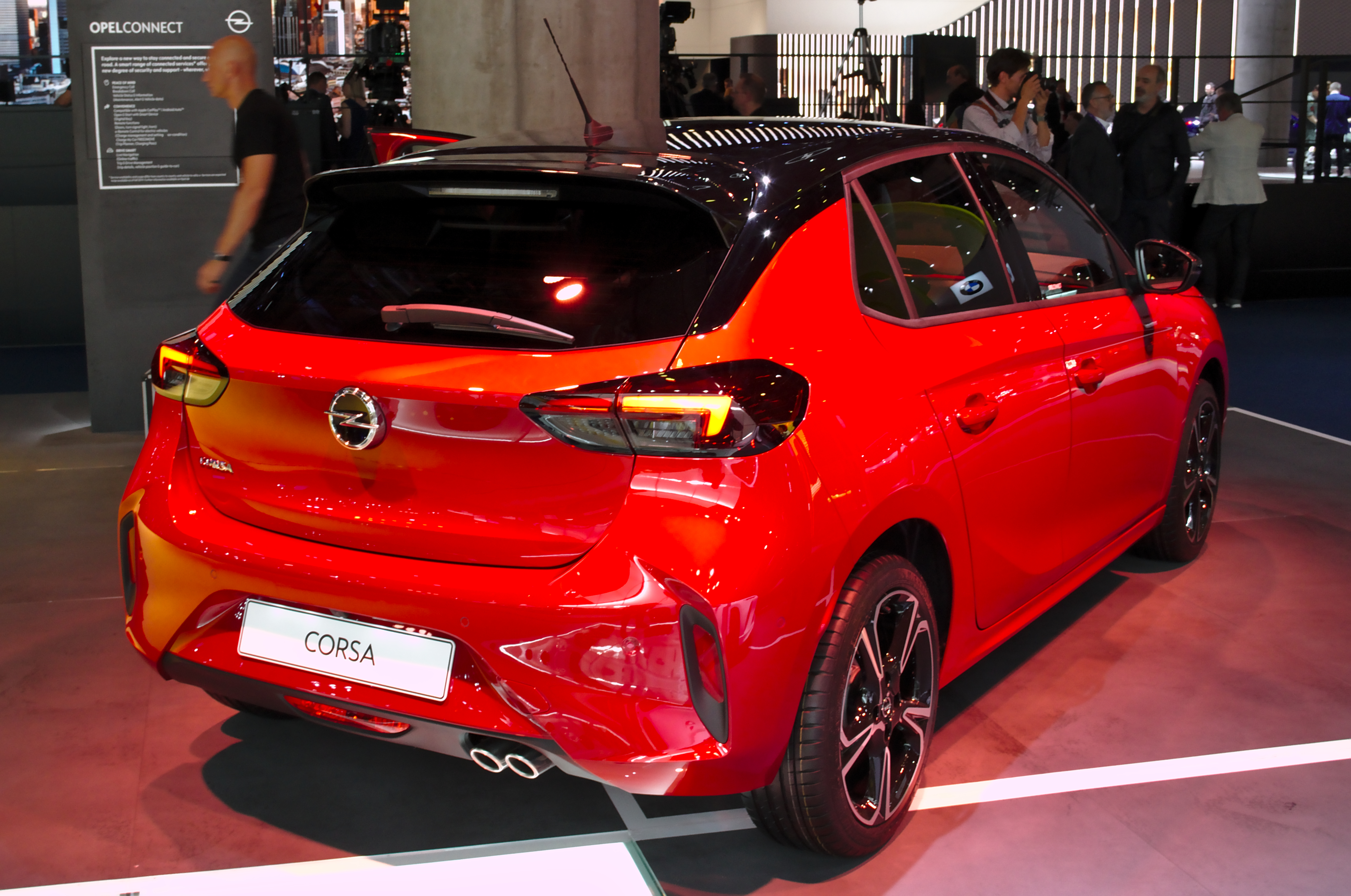 Opel_Corsa_F at IAA 2019